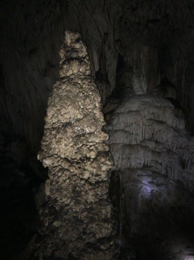 ledena pecina